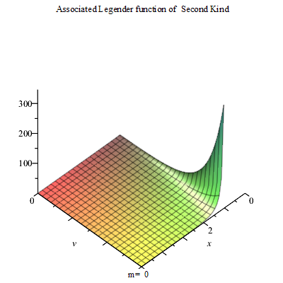 Associated Legendre Q function